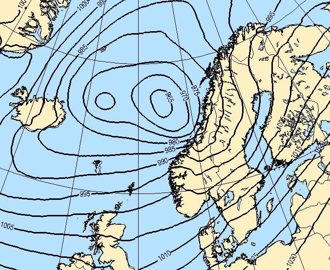 The storm Ulrik that hit Norway 25th-26th October 2008.